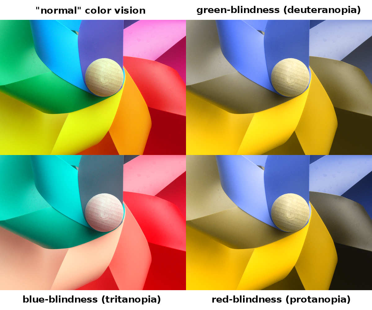 Comparison between the types of blindness.